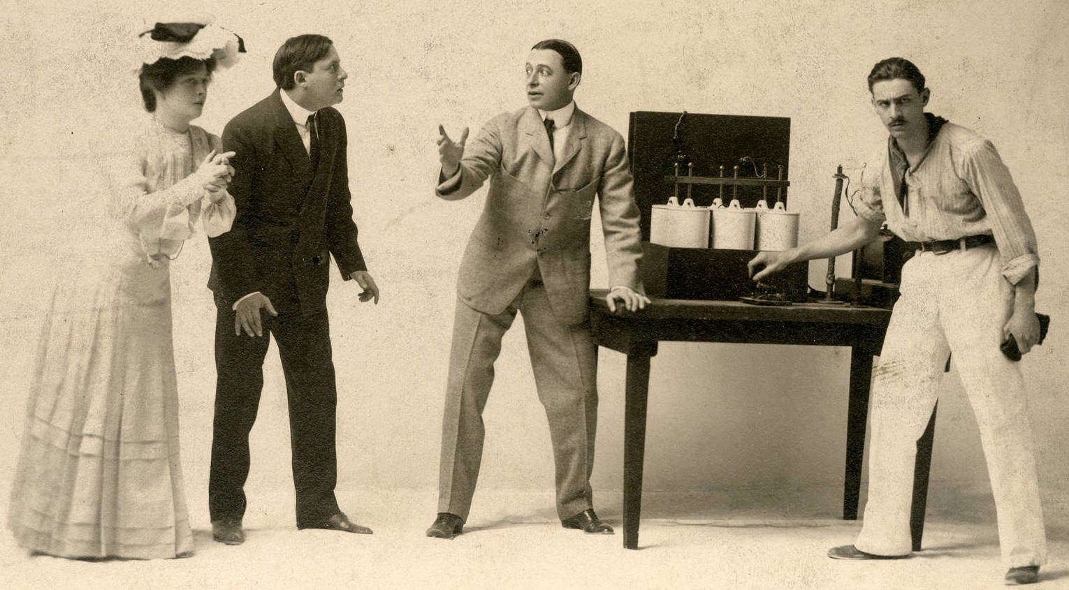 William Collier Sr. (center) and John Barrymore (right) in the play The Dictator from Richard Harding Davis, Grand Opera House, Seattle - publicity still (cropped)